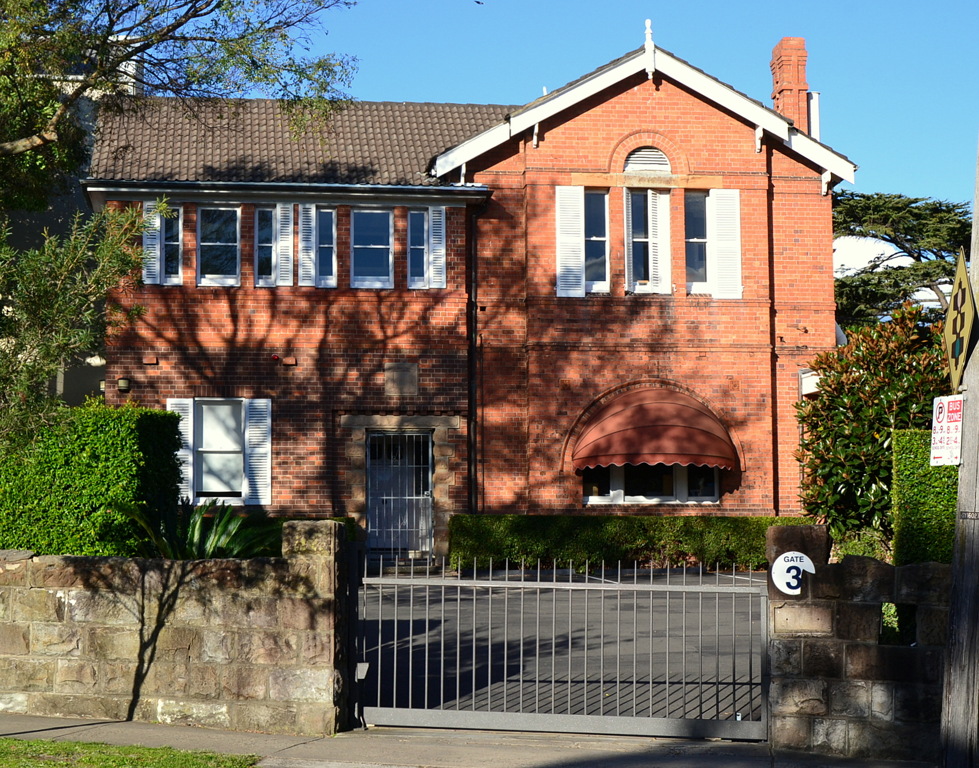 St Catherines School, Waverley, Sydney